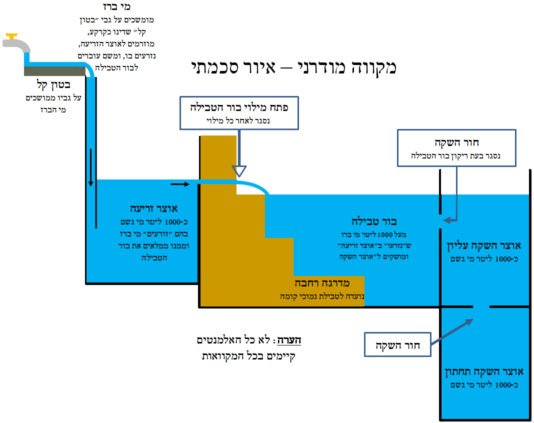 schematic diagram of modern mikvah